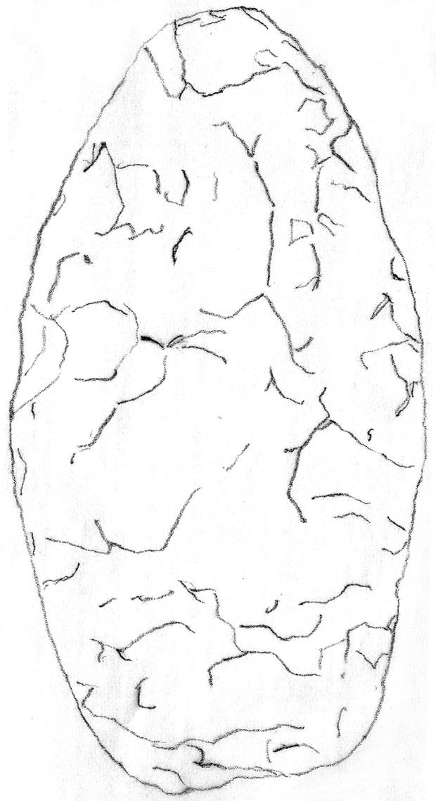 Sketch drawings of Stone Age tool from Avas, Miskolc, Hungary